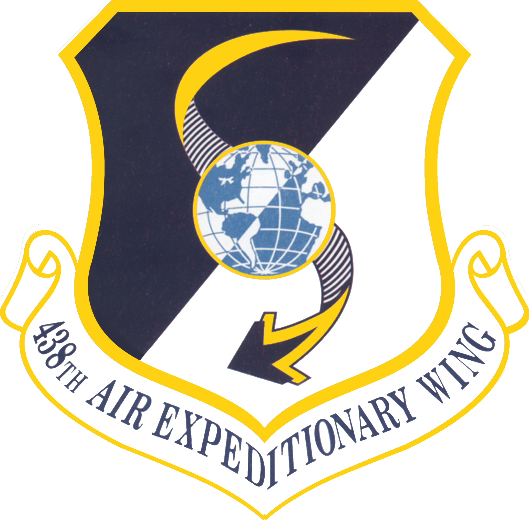 438th Air Expeditionary Wing emblem Blazon: Per bend sinister Purpure and Argent, a globe per bend sinister Argent and Azure, land masses and grid lines counterchanged, fimbriated Or, in base a flight symbol of the first point to dexter emitting an ‘S’ shaped ribbon contrail Yellow, fimbriated Purpure, doubled White barry Purple palewise behind the globe, all within a diminished bordure Or. Symbolism: Ultramarine blue and Air Force yellow are the Air Force colors. Blue alludes to the sky, the primary theater of Air Force operations. Yellow refers to the sun and the excellence required of Air Force personnel. The shield division suggests night and day, and denotes the unit’s ability to conduct operations twenty-four hours a day. The globe symbolizes the global mission of the unit and emphasizes the ability to complete the mission anywhere in the world. The lashing spear, with twisting contrails, symbolizes the speed and accuracy of the Group’s combat capability.